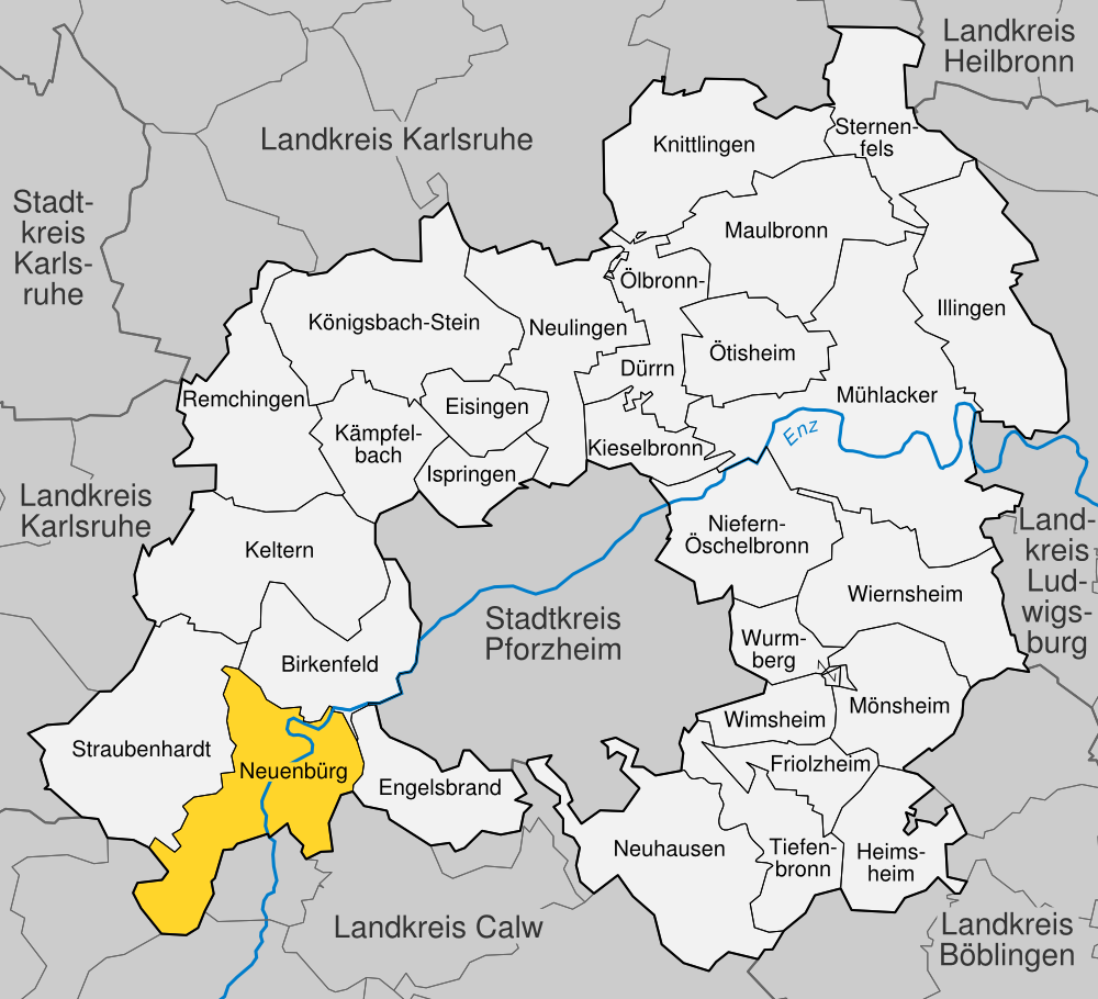 position of Neuenbürg within distict of Enzkreis, Baden-Württemberg, Germany